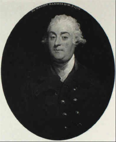 Portrait of Sir Walden Hanmer, 1st Baronet (1717–1783), British lawyer and politician. According to [1] it was painted 1784, which would make its completion a posthumous portrait of Hanmer.